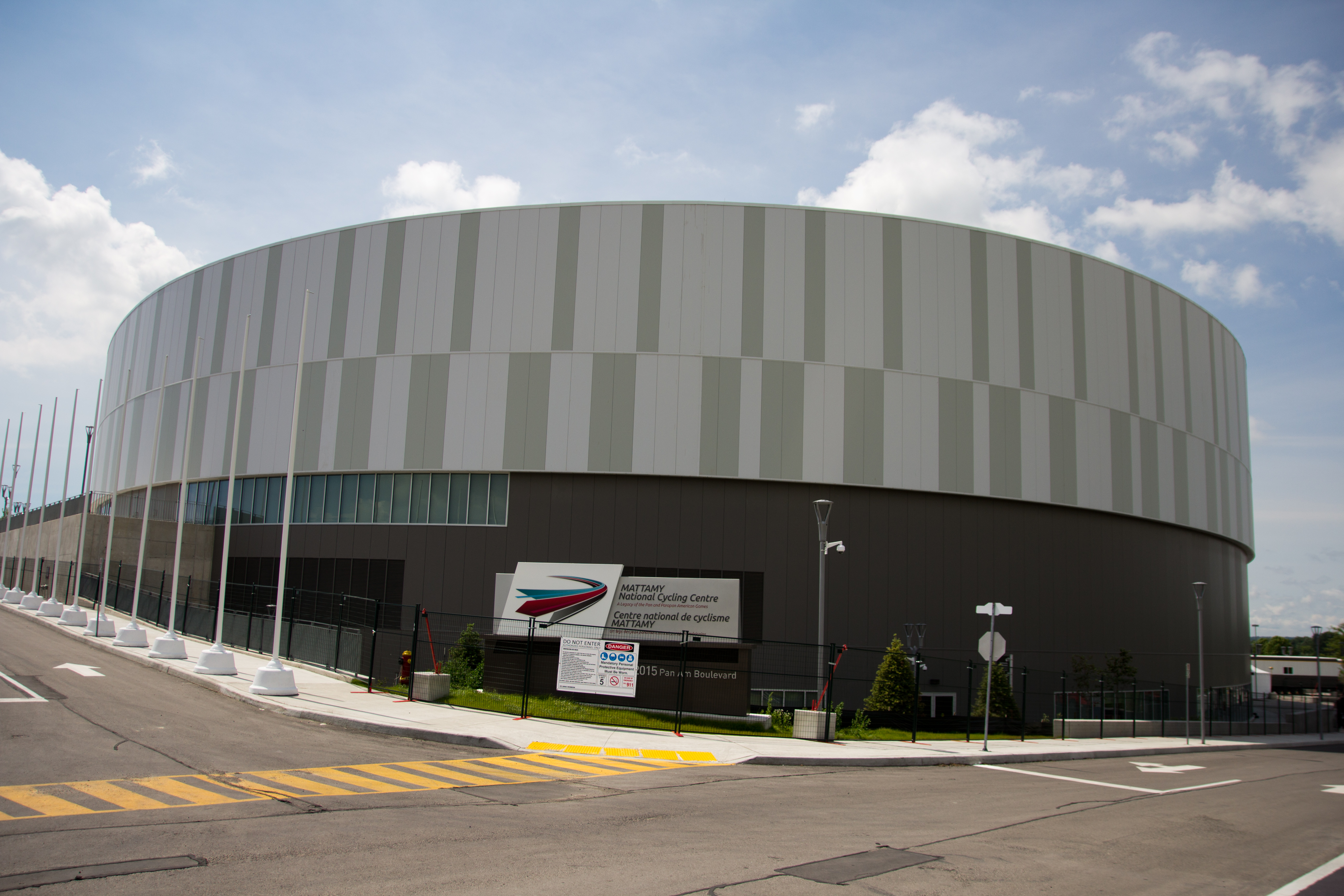 Mattamy National Cycling Centre being prepared for the 2015 Pan Am Games